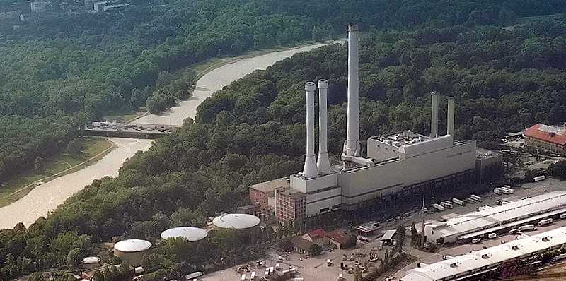 Heizkraftwerk Süd of SWM , aerial view of the terrain of the “Großmarkthalle München” (wholesale market Munich), Luftbildverlag Hans Bertram GmbH, 2005